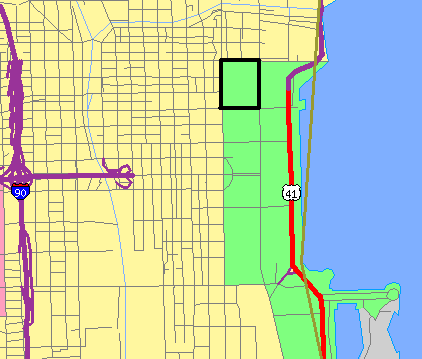 Map of the location of Historic Michigan Boulevard District